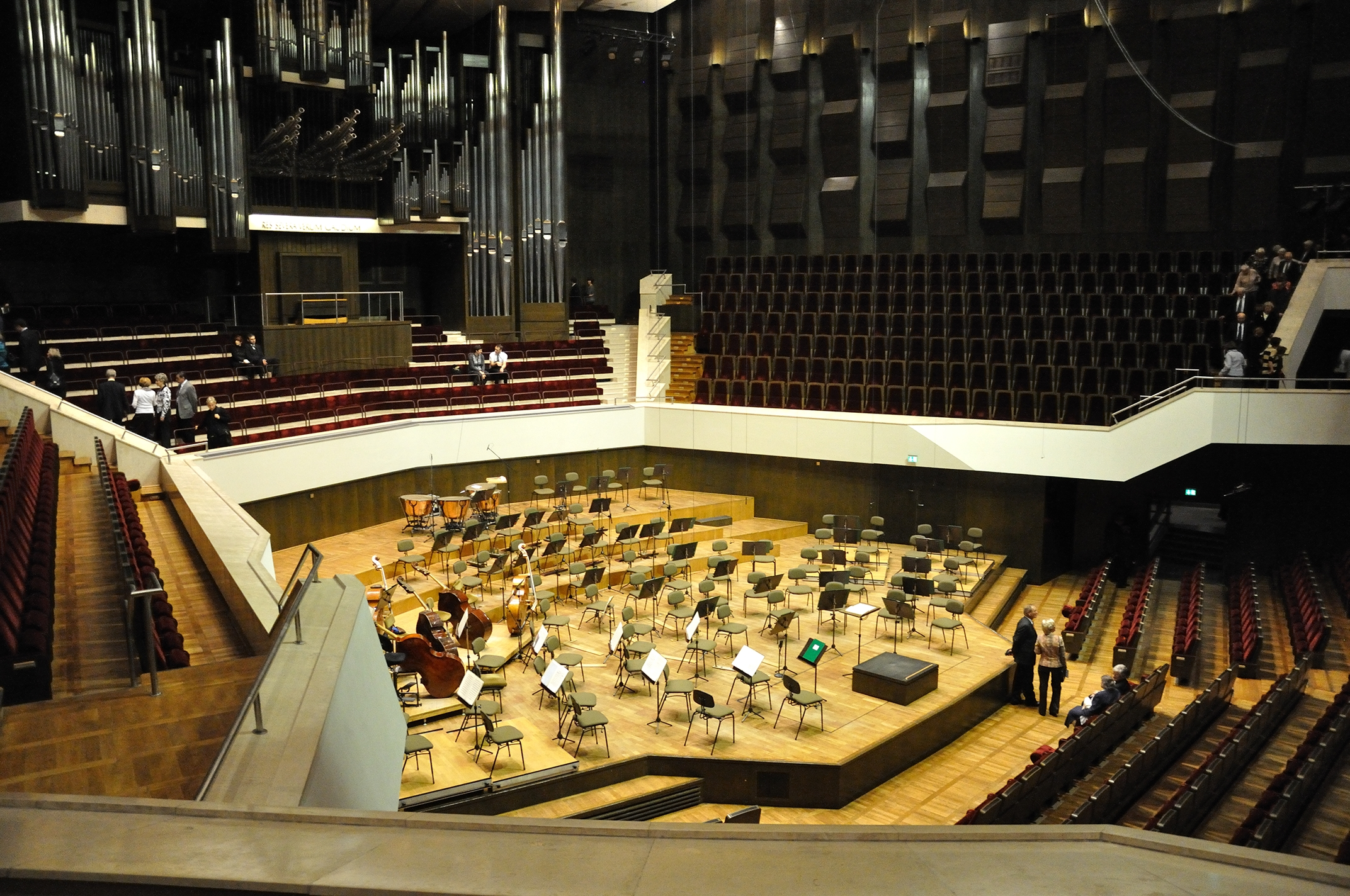 Photograph of the stage inside the Gewandhaus zu Leipzig, Germany. Camera: Nikon D90 License on Flickr (2011-02-03): CC-BY-2.0 Flickr tags: 2009, 2000s, November, vxla, Leipzig, Germany, Europe, travel